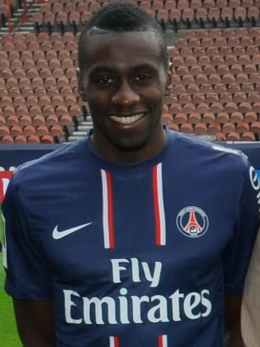 Javier Pastore, Thiago Silva, Zlatan Ibrahimovic, Blaise Matuidi with Emirates flight attendants, 2013 at Parc des Princes in Paris.